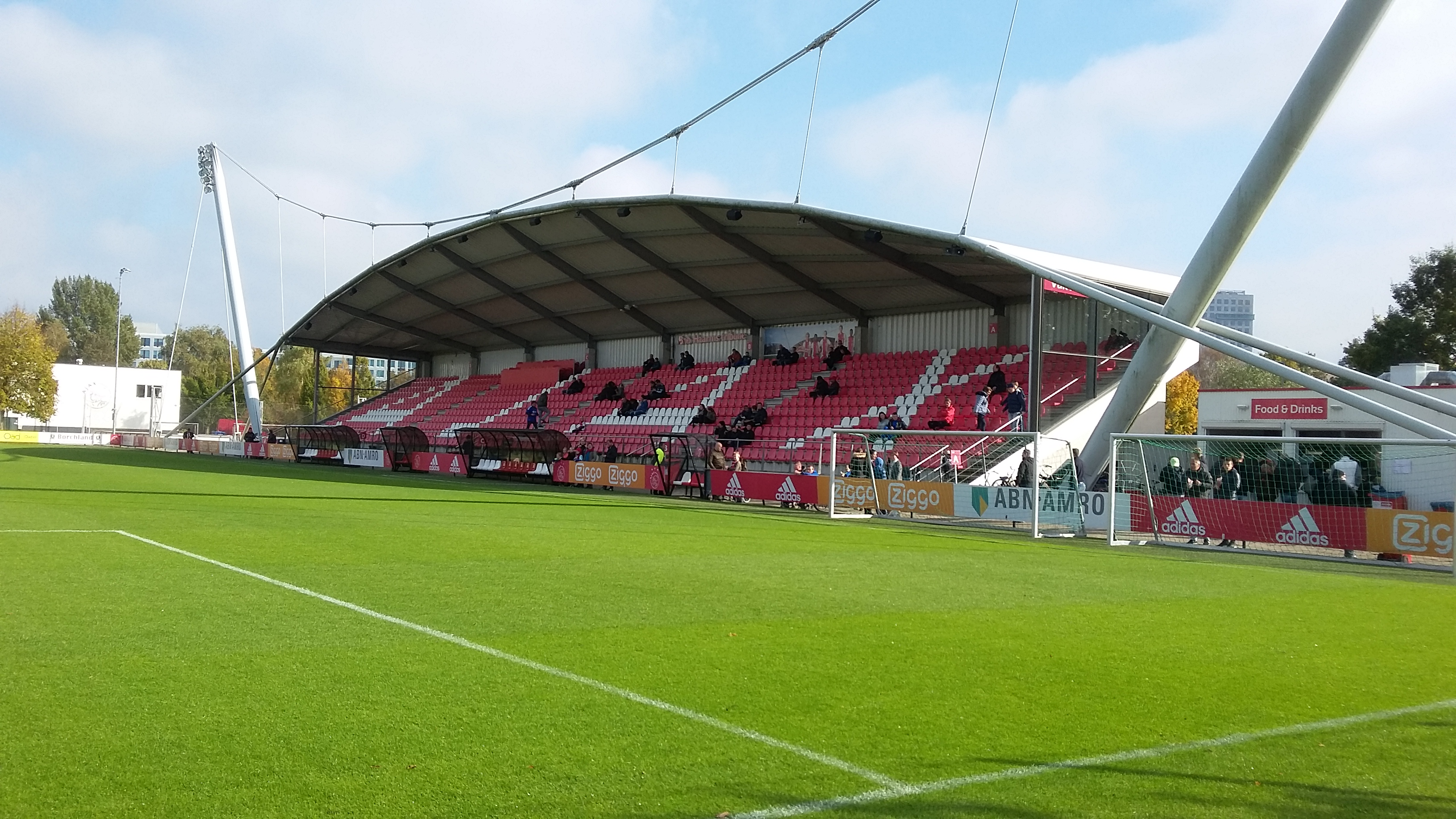 Stadion De Toekomst - Bob Haarmstribune